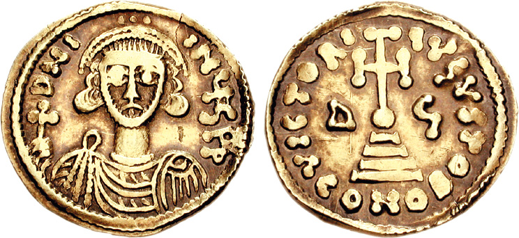 Lombards, Beneventum (nowdays Benevento. Gottschalk. AD 739-742. Pale AV Solidus (3.90 g, 6h). D N I-INЧS P P, crowned and draped facing bust, holding globus cruciger; crown topped with ••• VICTORI IVGVSTO, cross potent on globe on four steps; D-G across fields; CONOB. CNI XVIII 5; BMC Vandals -; MEC 1, 1091. VF, a few scratches under tone. From the Marc Poncin Collection.